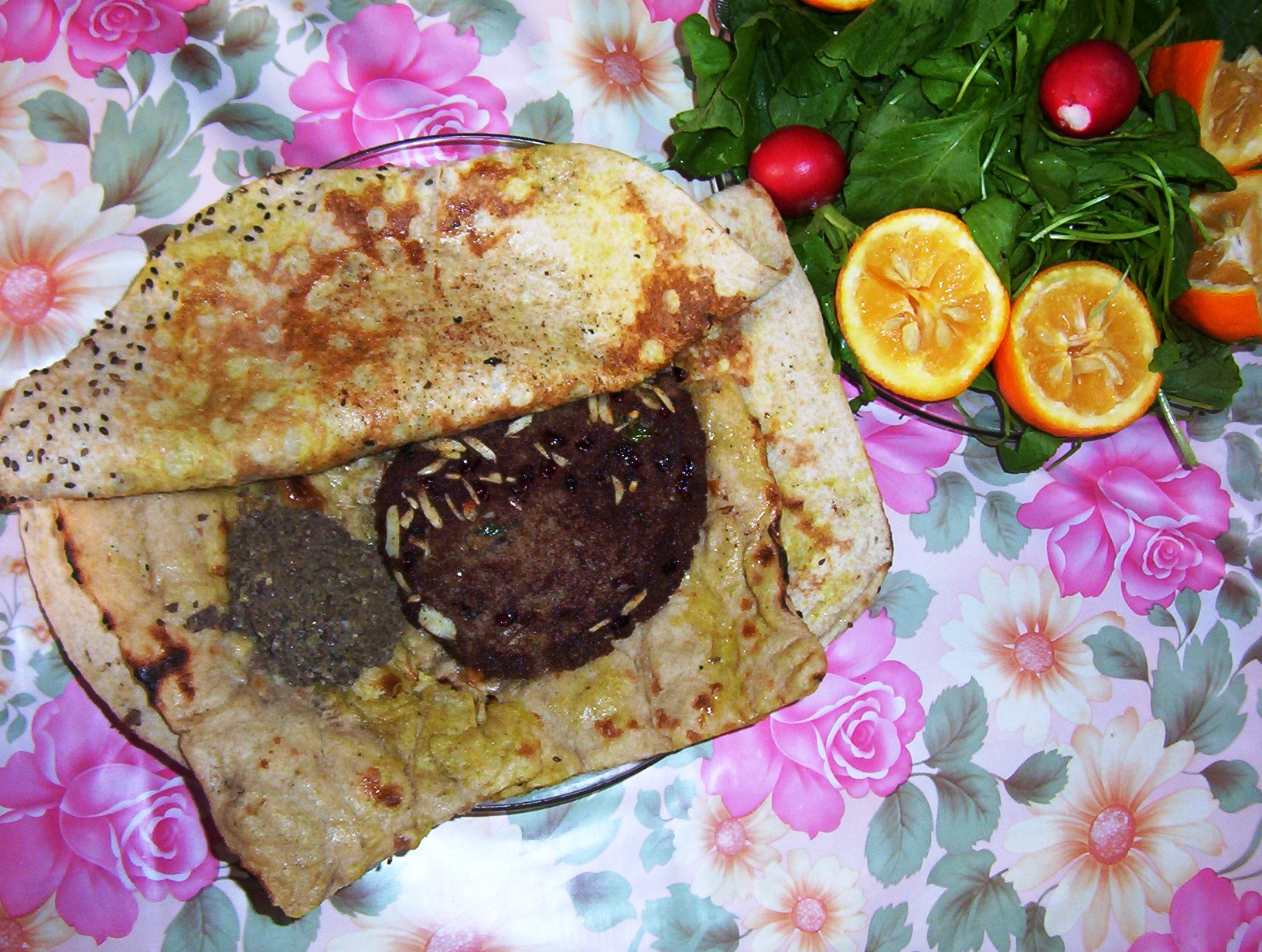 Beryani (Iranian Food)